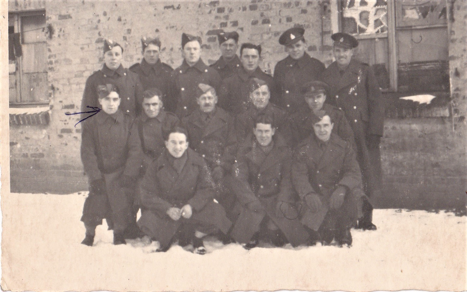 Prisoners in Stalag VIII-B (Verified by stamp on the back of the photo) during the second world war. My uncle Edward Chainey, far left middle row. These prisoners were put on the forced march and eventually rescued by the Americans. Edward spent months in hospital due to starvation.